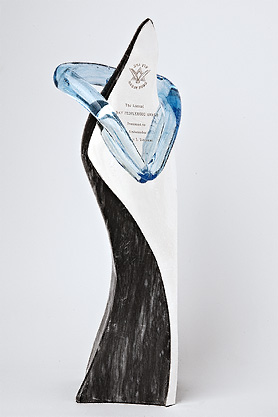 The NADAV Peoplehood Award